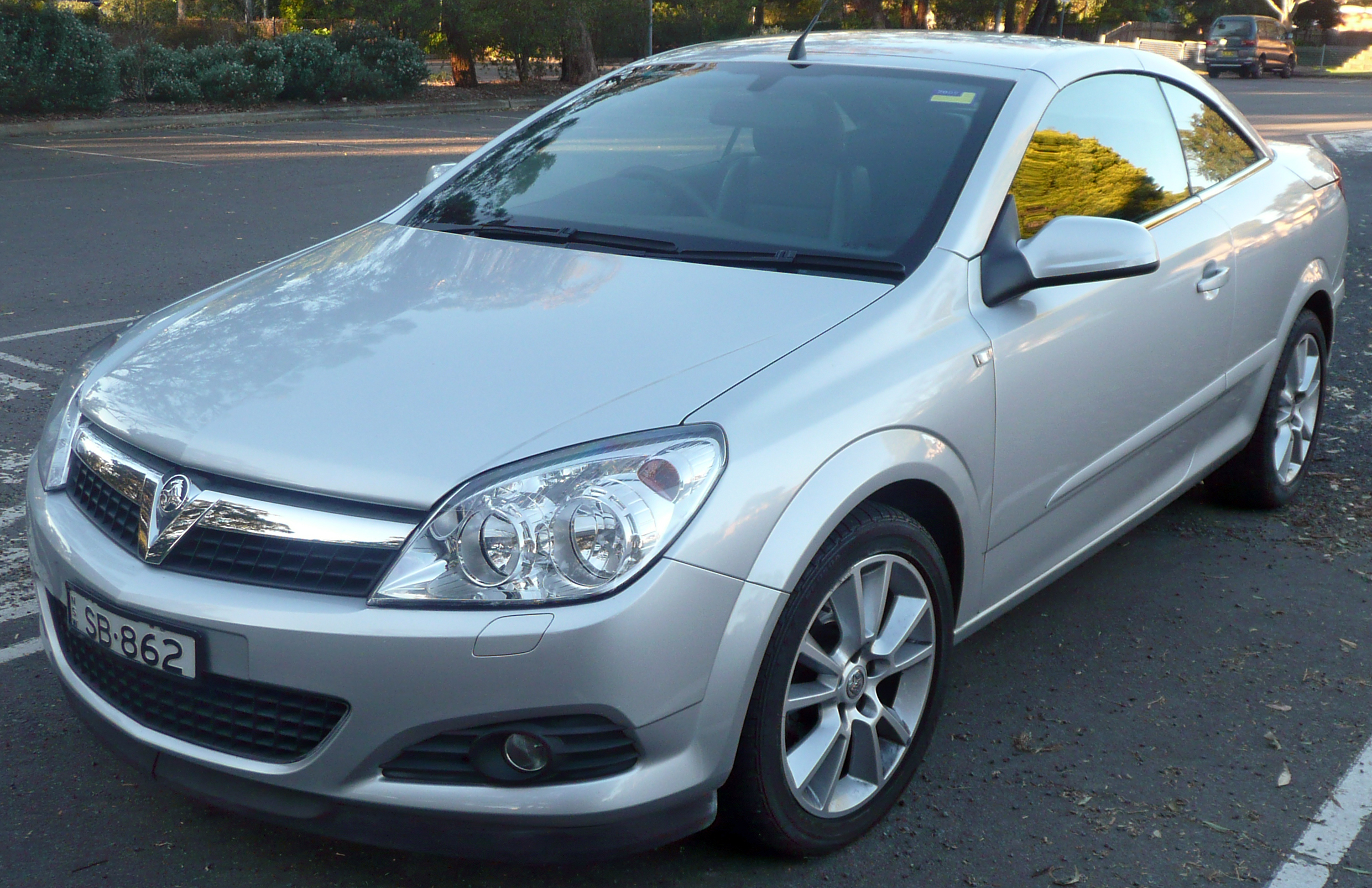 2006–2008 Holden Astra (AH) Twin Top convertible. Photographed in Sutherland, New South Wales, Australia.